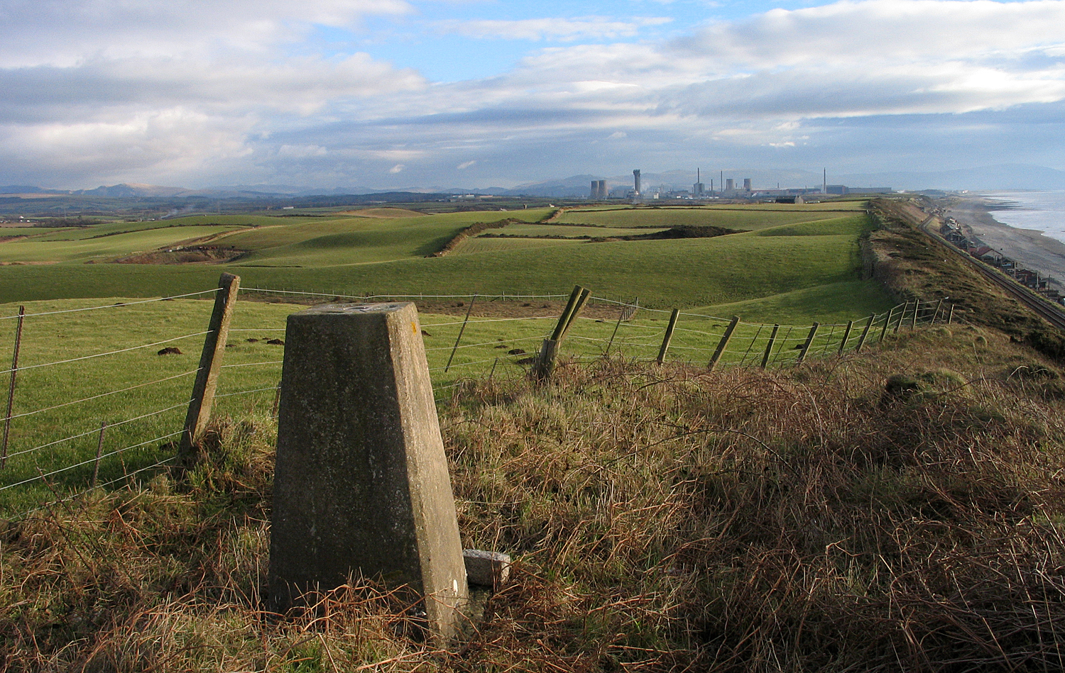 The Trigonometric Point at Harnsey Moss at the Cumbrian Coast. The nuclear plant of Sellafield in the distance.